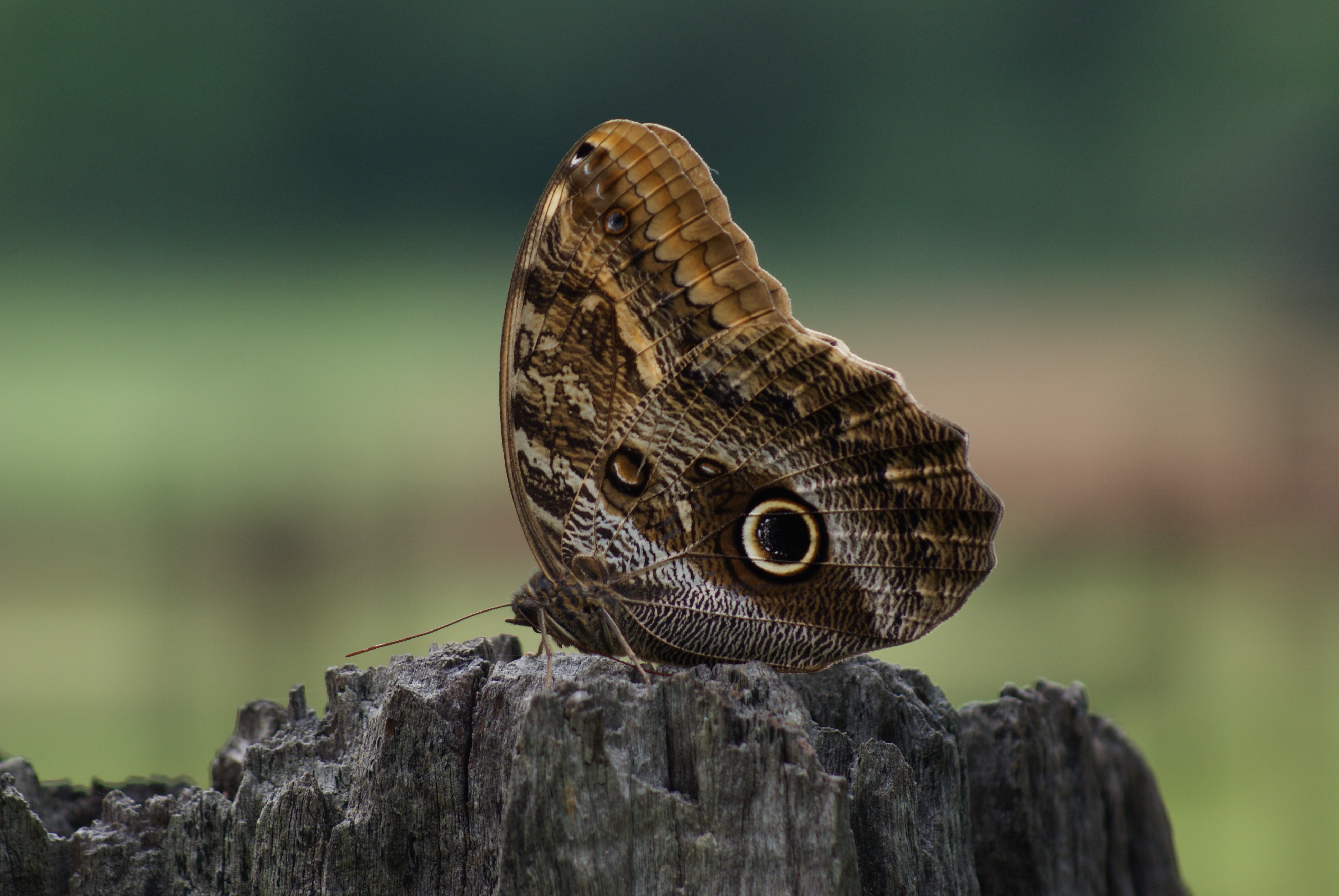 Owl butterfly, it belongs to the genus Caligo and it's typical of South America. Photographed in the city of Bonito. Mato Grosso do Sul state, Brazil.